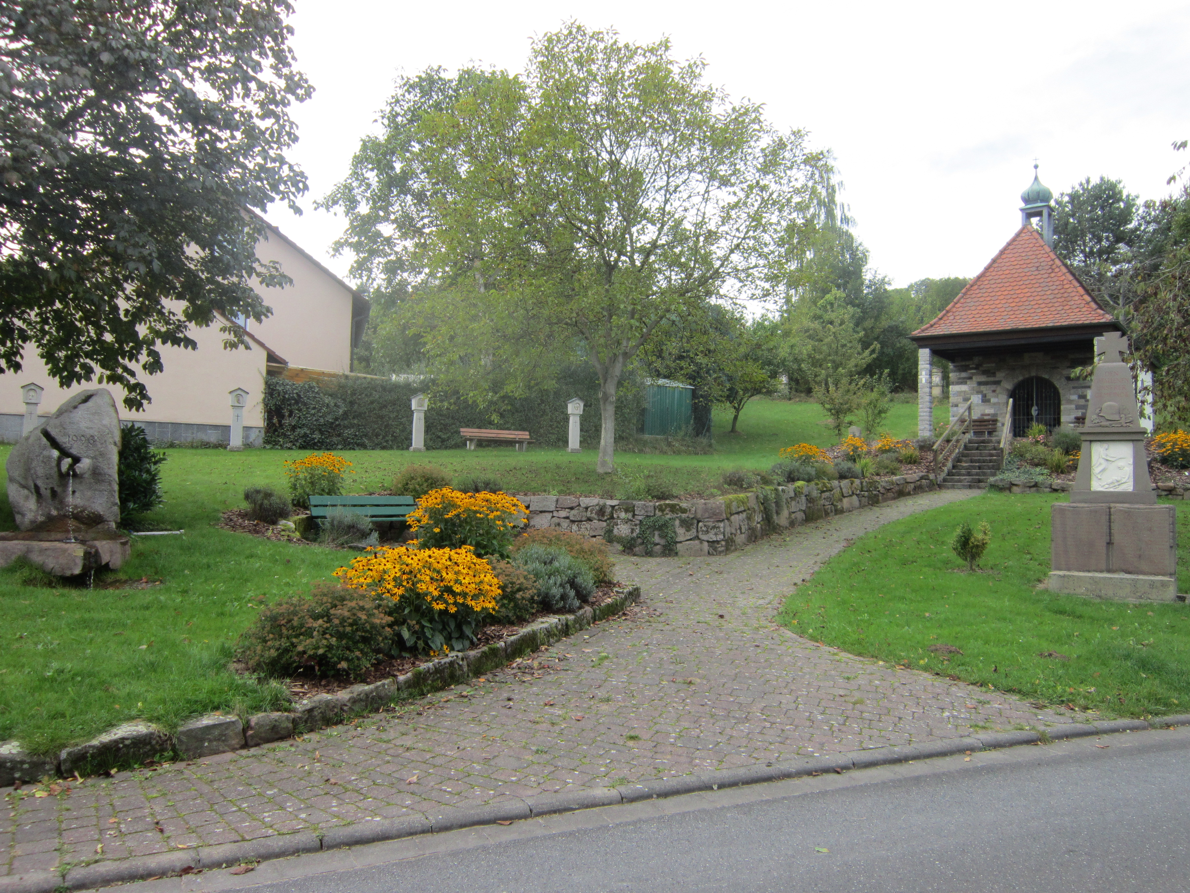 Wendelinuskapelle in Waldfenster, a quarter of the German town of Burkardroth in Lower Franconia (Bavaria).